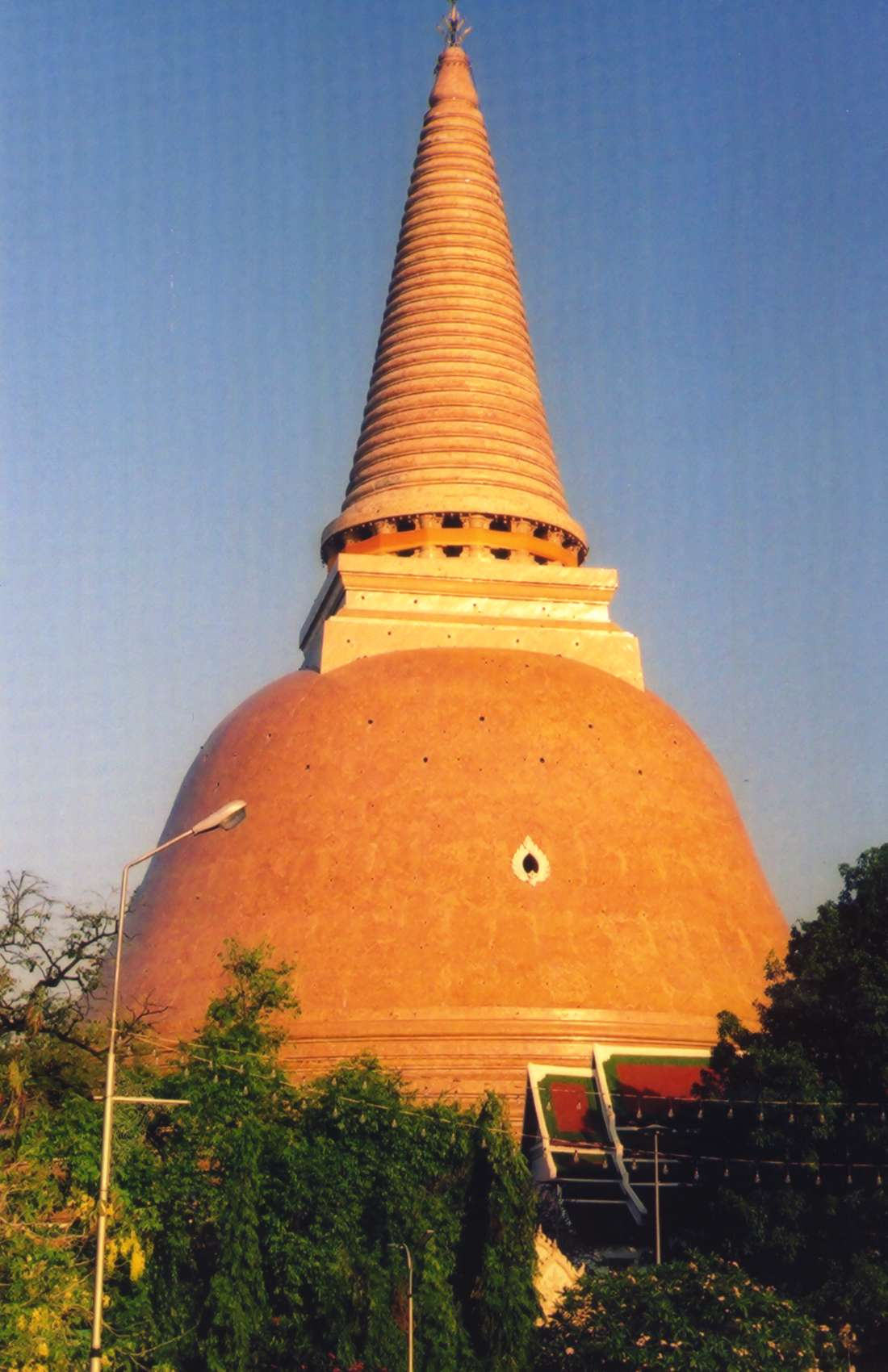 Phra Pathom Chedi, Nakhon Pathom, Thailand. Photo by User:Ahoerstemeier on January 26 2005.